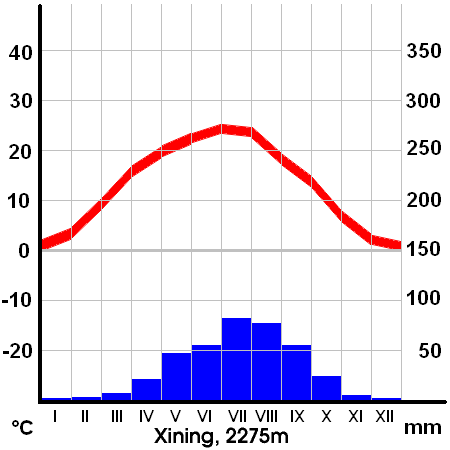 Xining max. temperature and rainfall. Data from software